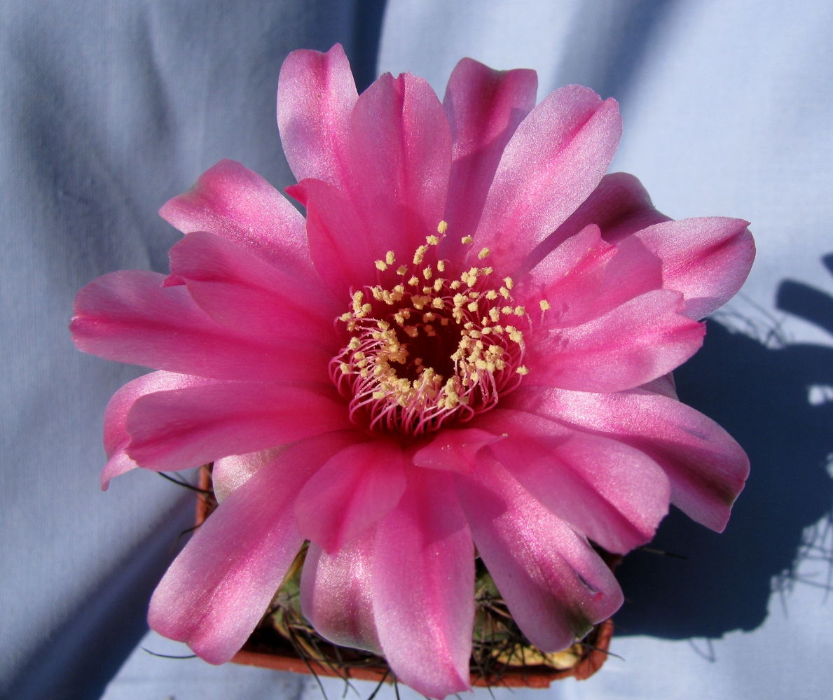 Gymnocalycium baldianum in flower